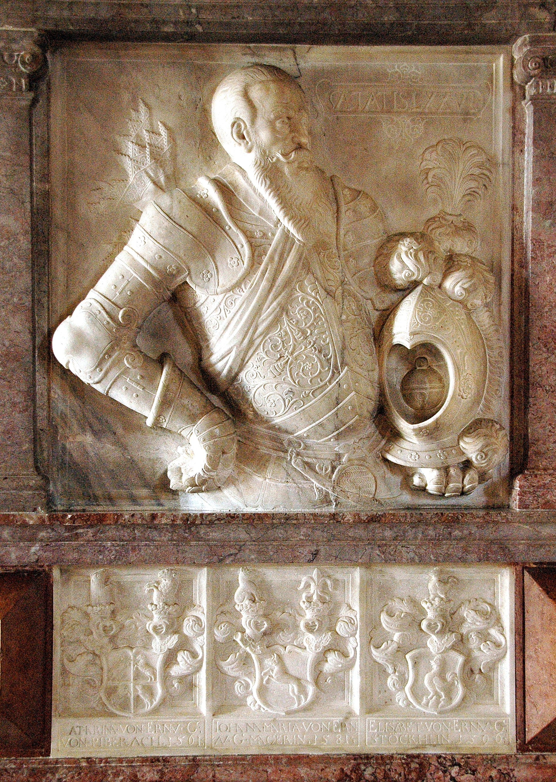 Epitaph for the noble Ulrich von Ernau II. in the porch of the parish church Saints Michael and George, municipality Moosburg, district Klagenfurt Land, Carinthia, Austria, EU